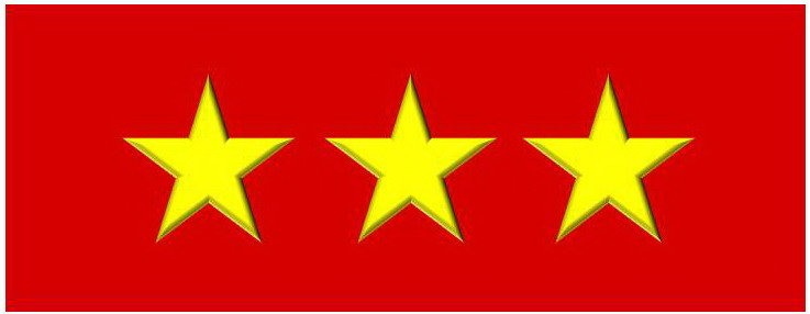 three star plate